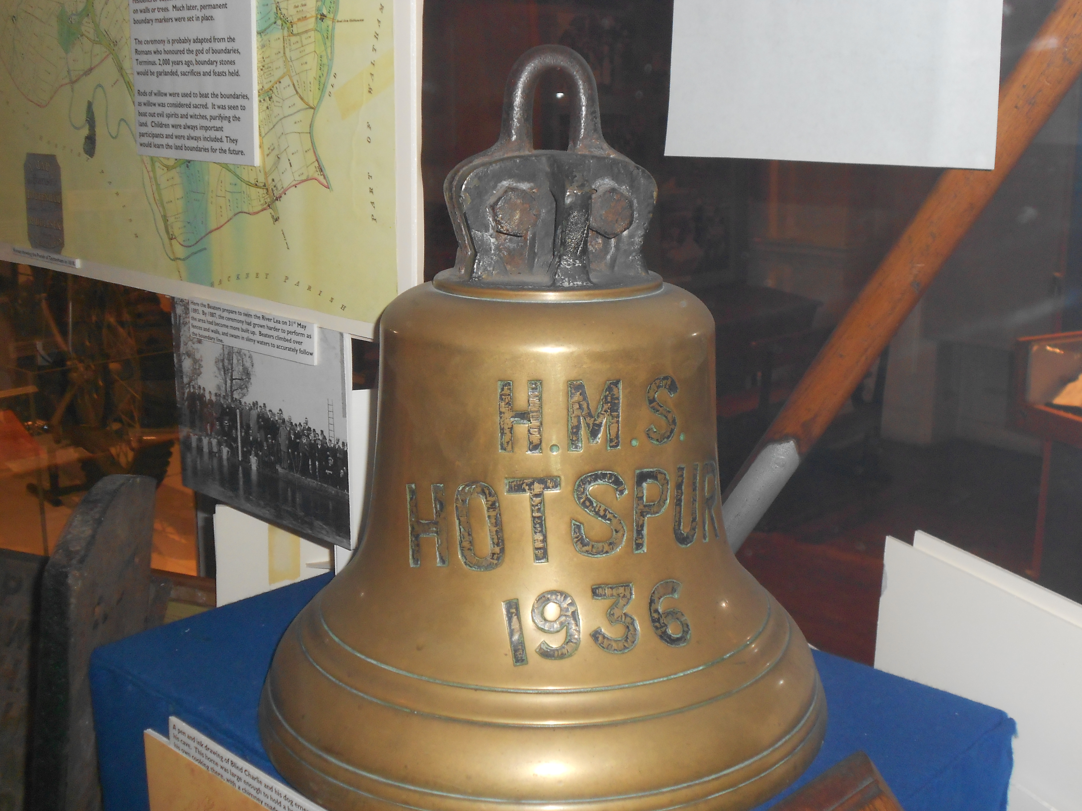 A bell from HMS Hotspur (H01), Bruce Castle museum.